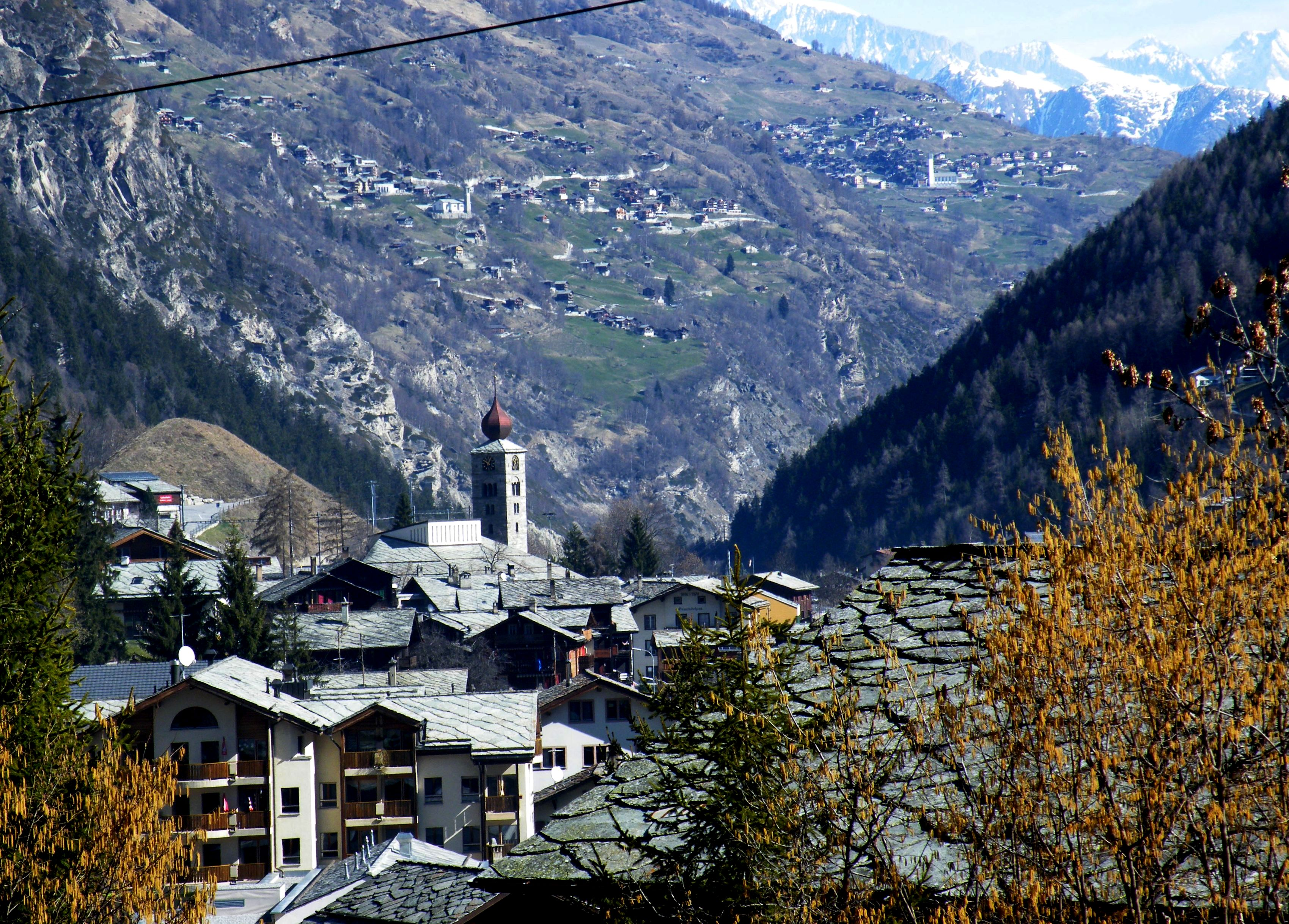 View of St. Niklaus, Valais, Switzerland, showing roof coverings of quartzite slabs